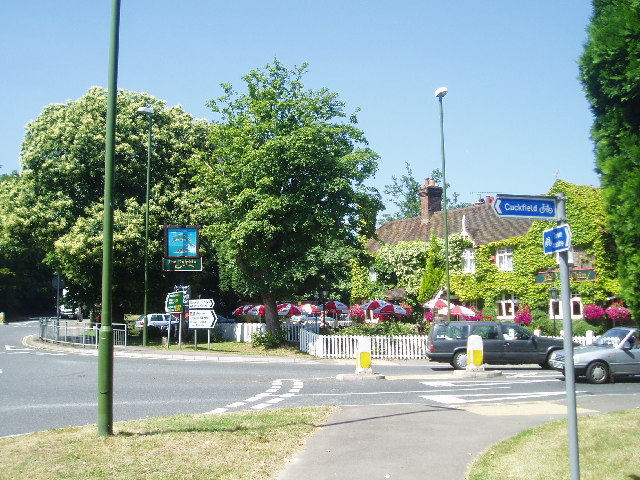 The Dolphin. The Dolphin pub used to be known locally as the 'Sarge' short for Sergison Arms. Now a very busy pub serving food.